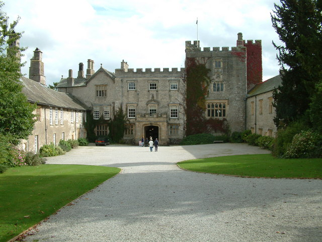 Sizergh Castle owned by the National Trust